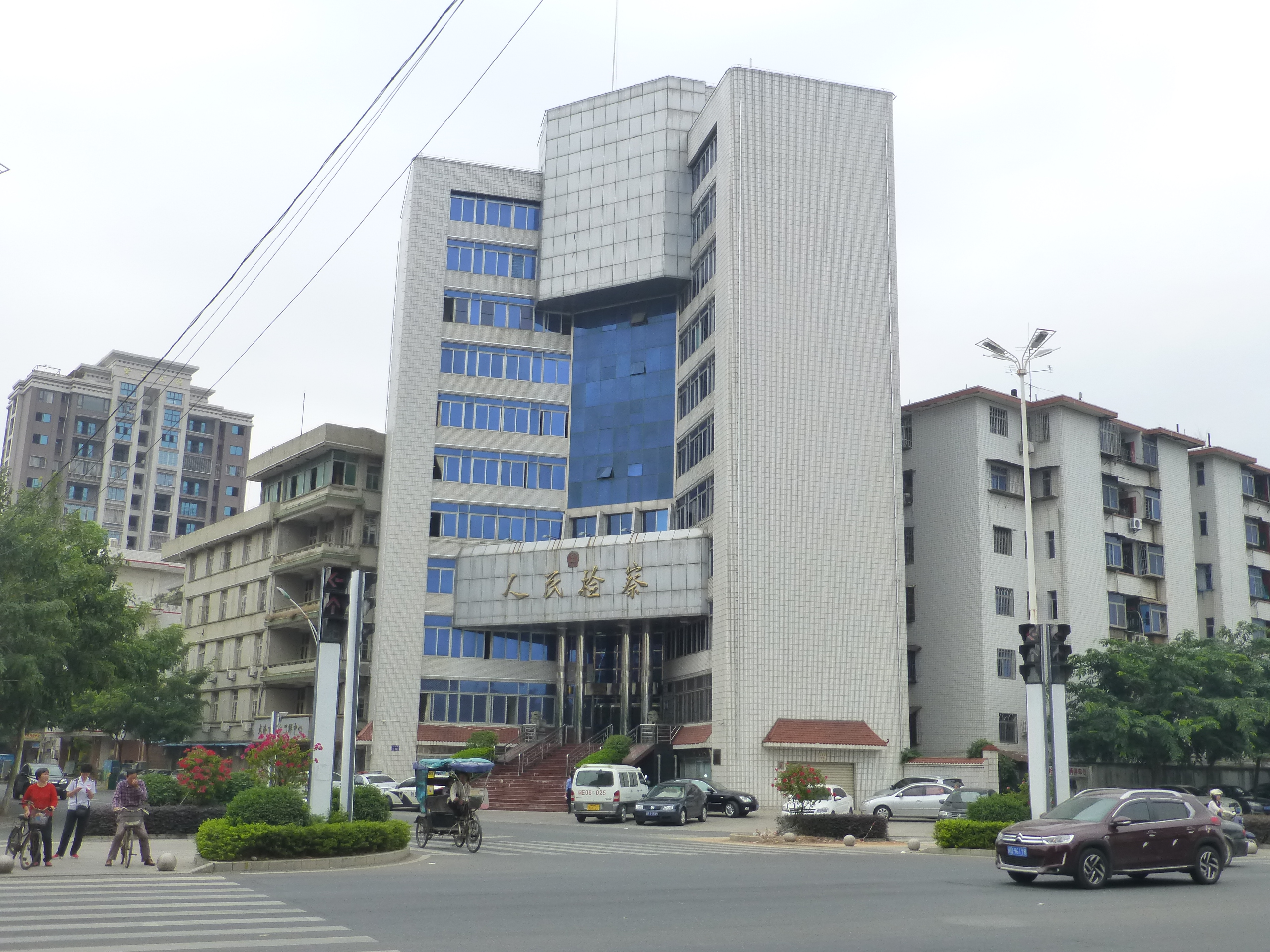 Longhai City, Fujian.